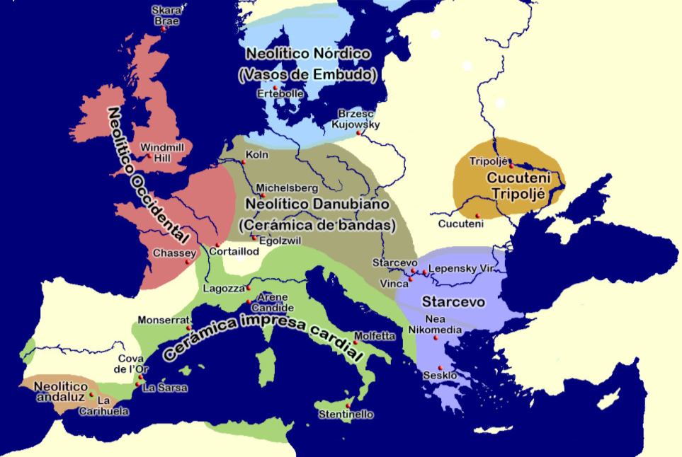 Map in Spanish language of generic Neolithic in Europe in the 5th milennium BCE